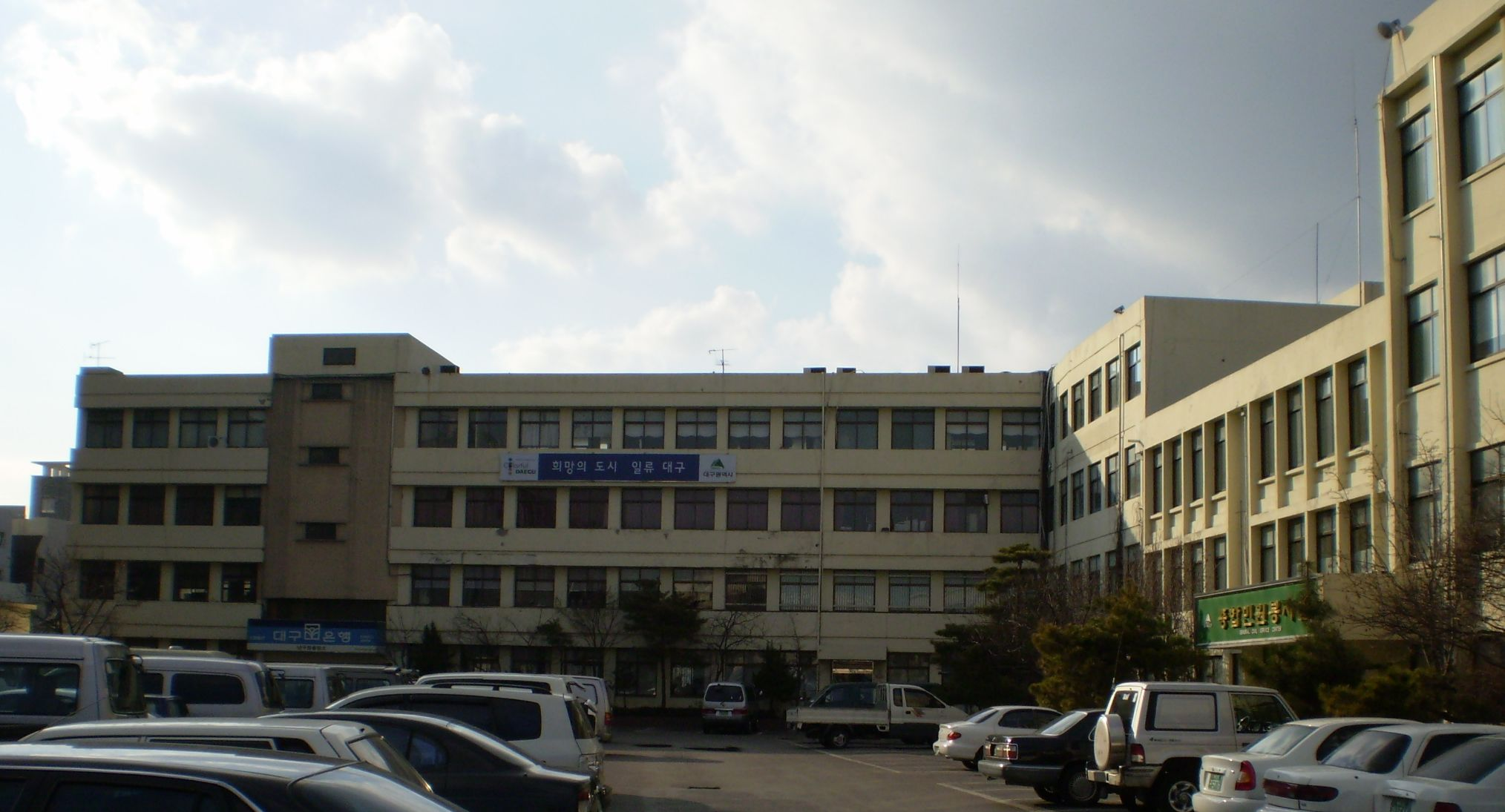 Nam-gu district office in Daegu, South Korea.